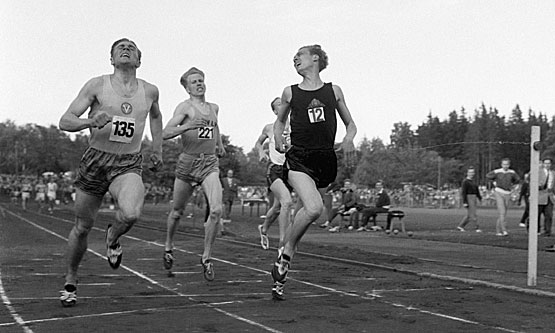 Olavi Salonen (left) and Olavi Salsola break the world record for the 1,500 m in Turku. Olavi Vuorisalo finishes a tenth behind and also betters the previous mark. Sweden's Dan Waern finished fourth and Matti Nurmi, the son of Paavo Nurmi, a distant ninth.